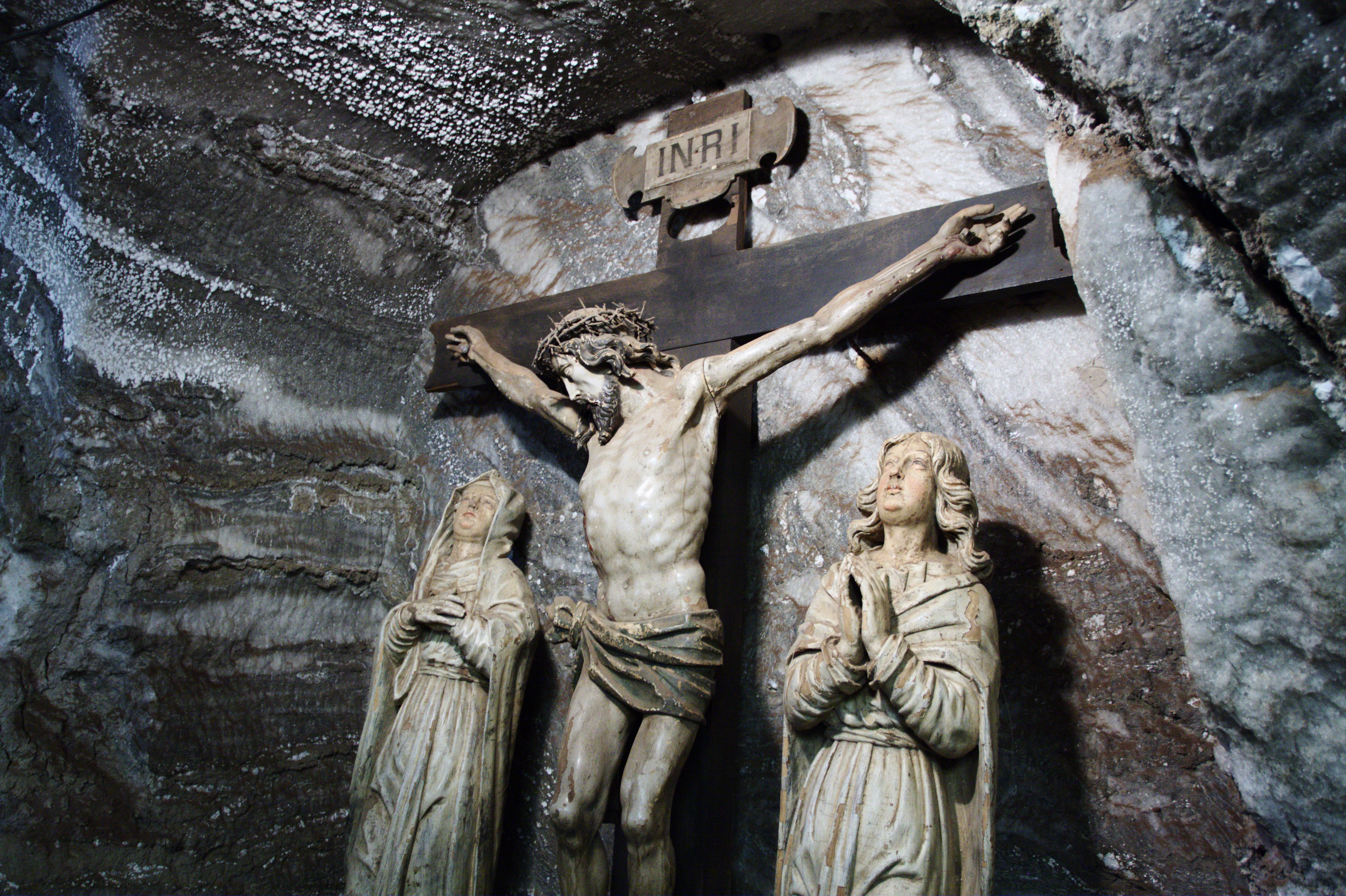 Bohnia, Salt Mine, Interior of st. Kinga chapel. Wikidata has entry Q4936252 with data related to this item.